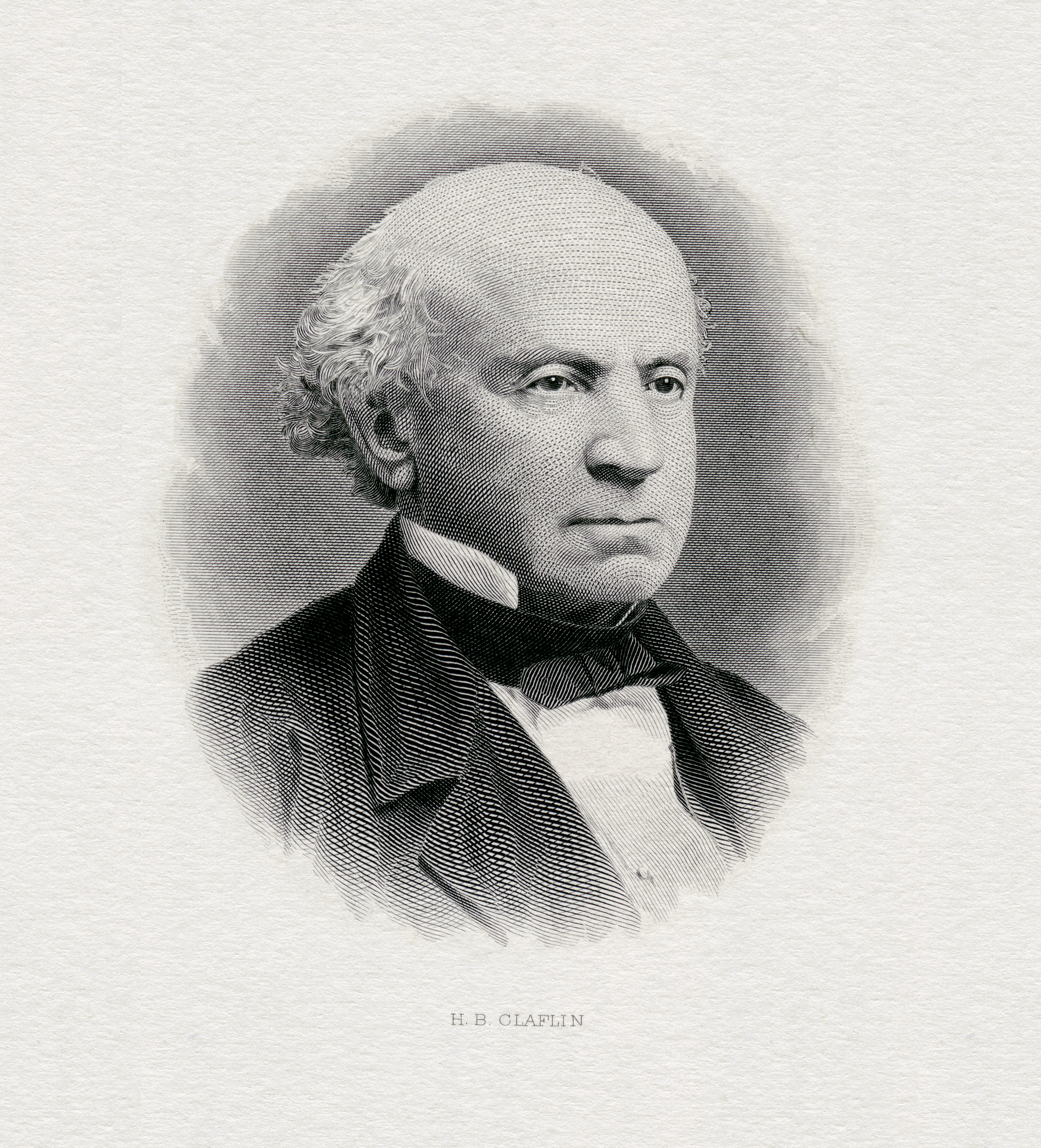 Engraved portrait of Horace_Brigham Claflin by American Bank Note Company engraver Louis Delnoce (1822–1890).